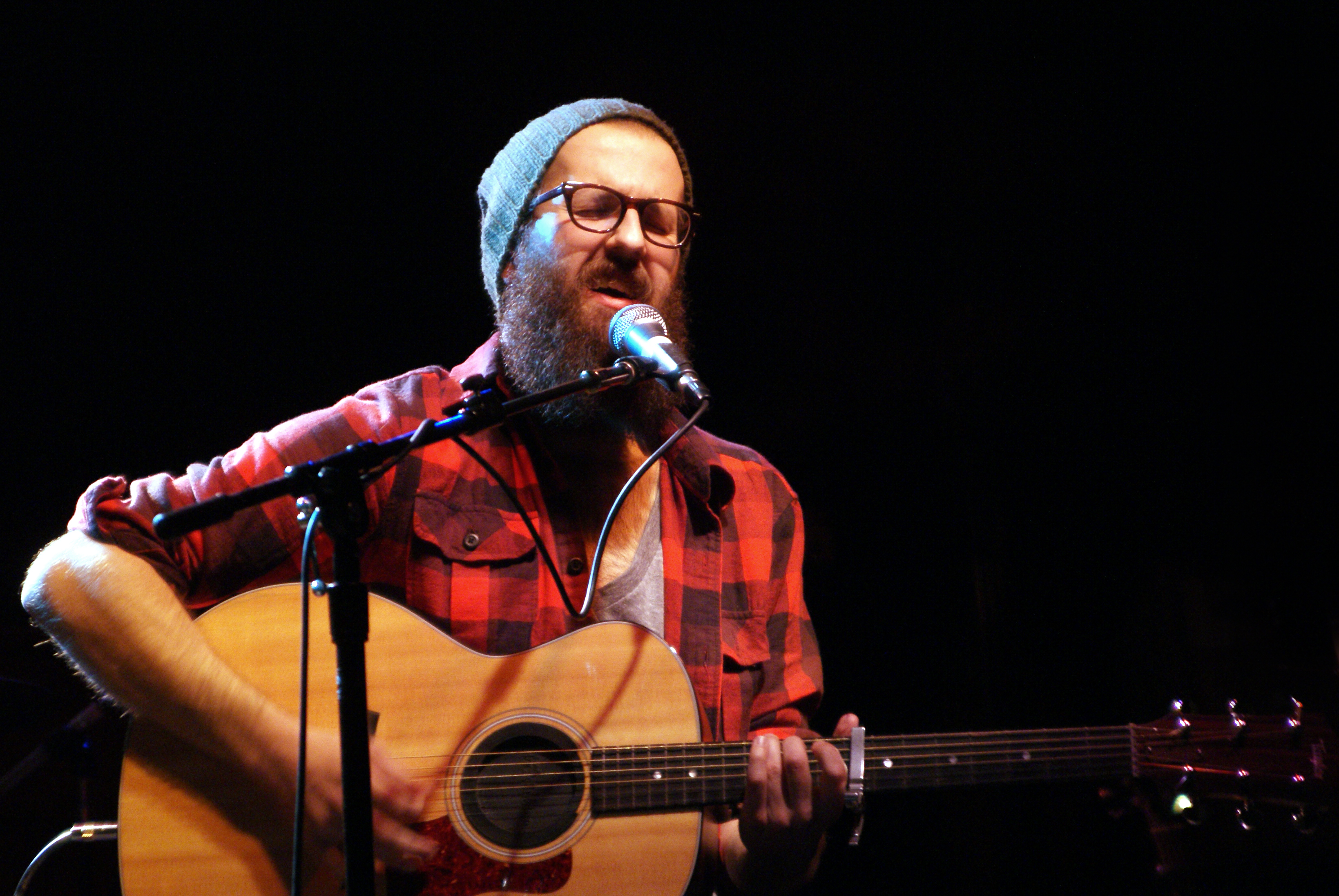 William Fitzsimmons at Schubas 4/11/09 2